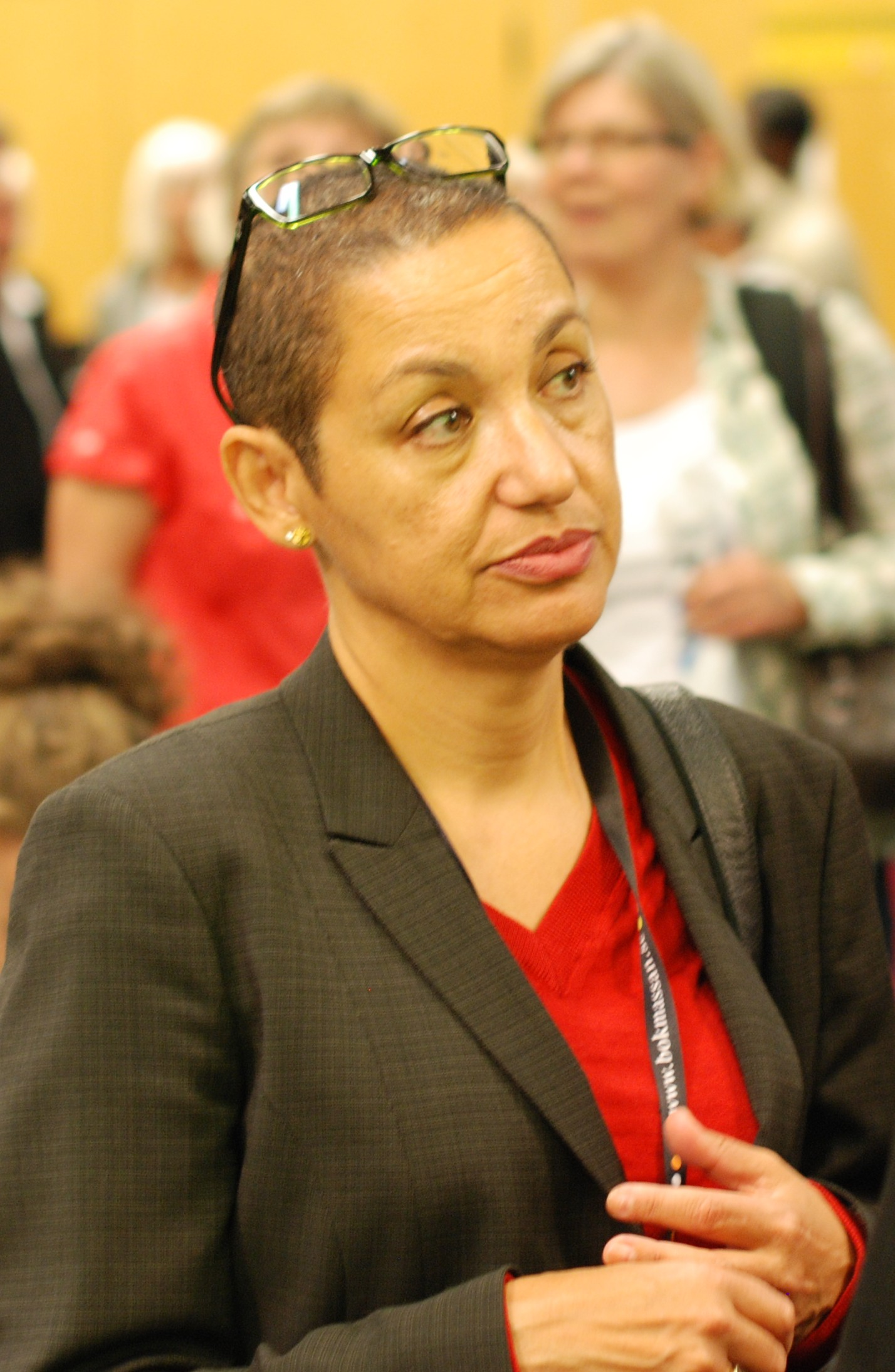 Astrid Assefa at the Göteborg Book Fair 2010